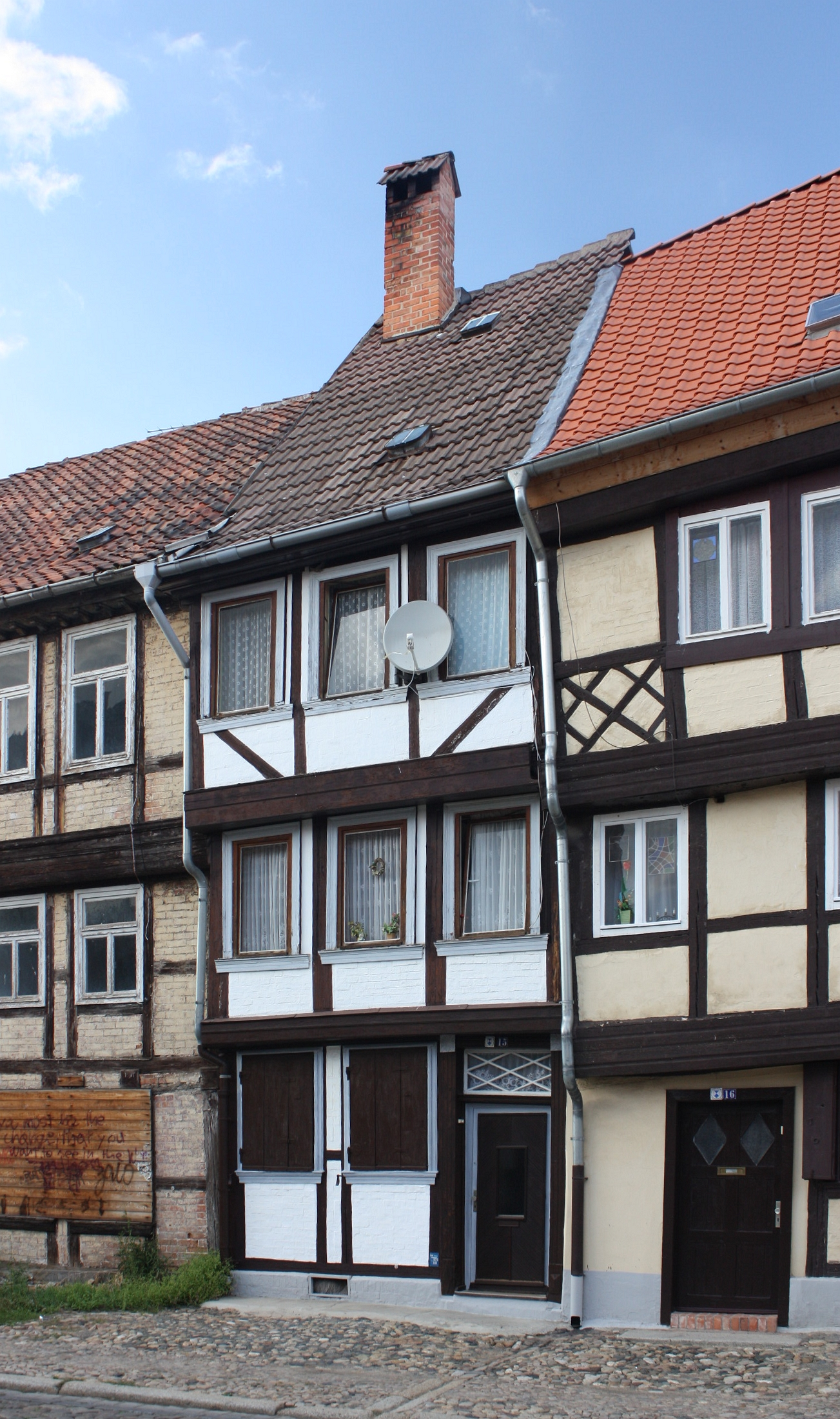 This is a photograph of an architectural monument.It is on the list of cultural monuments of Quedlinburg Augustinern 15 in Quedlinburg